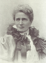 Anna Kuliscioff c 1907 or before